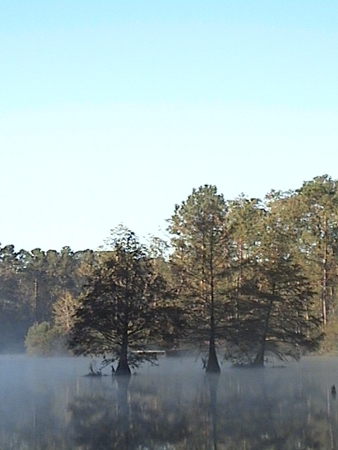 Taken by self, 2005.